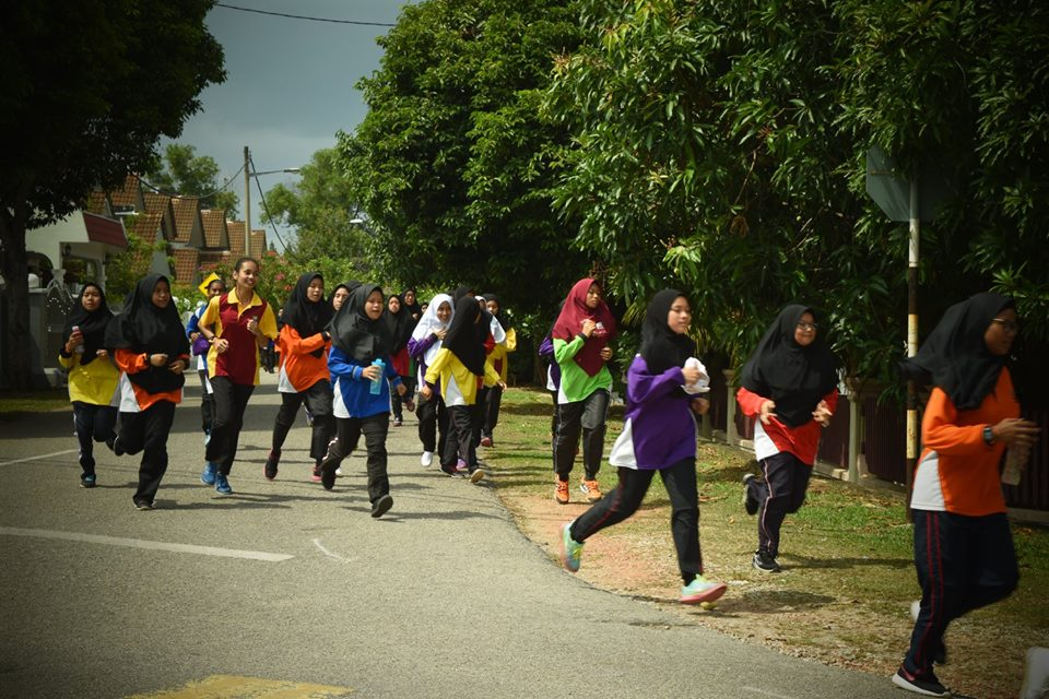 Acara Merentas Desa